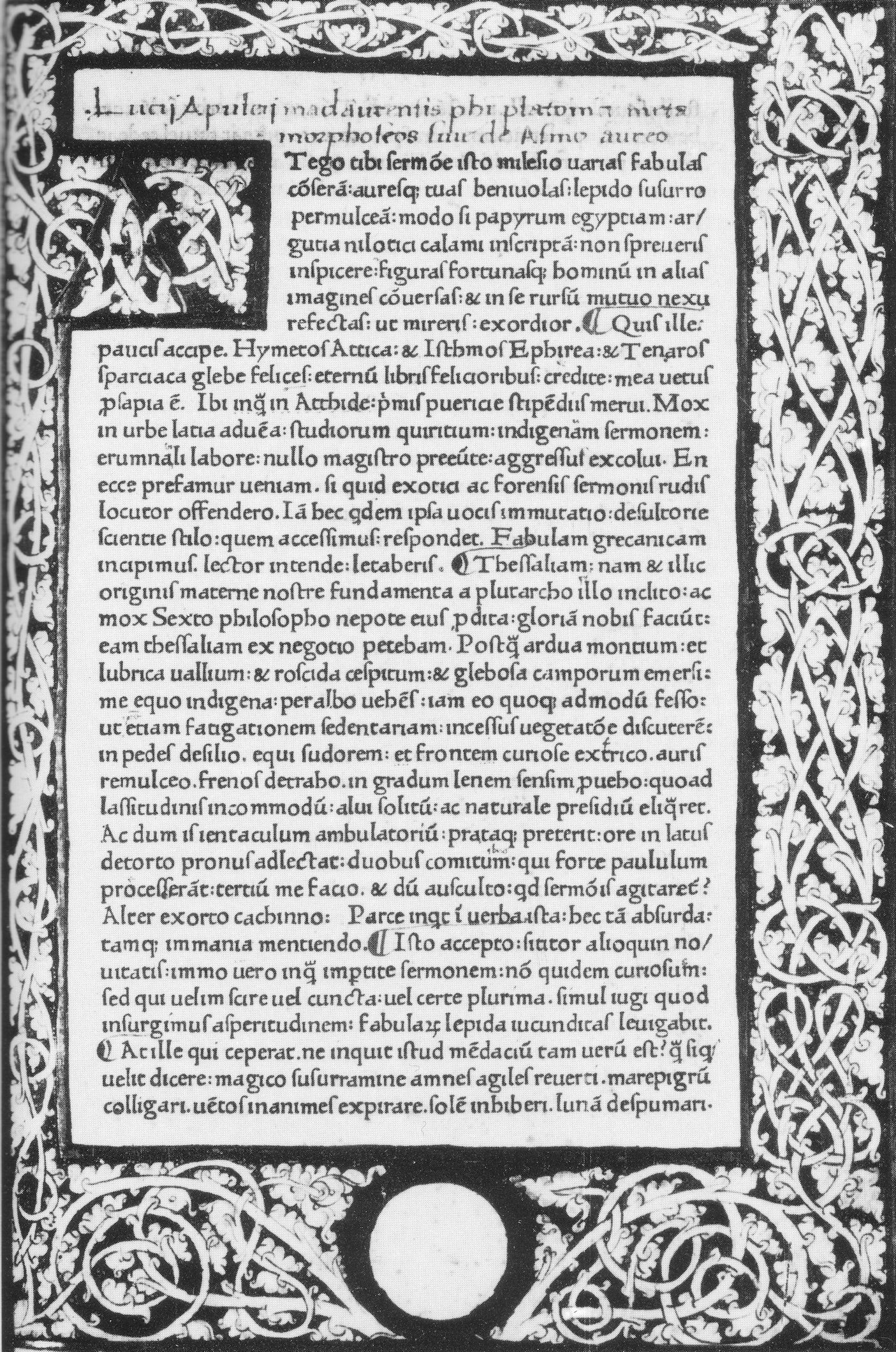 San Marino (California), Huntington Library. editio princeps of Apuleius, Metamorphoses 1.1(1,1)–1.3(3,15). Few emendations in margine which were partially lost when the book was trimmed.